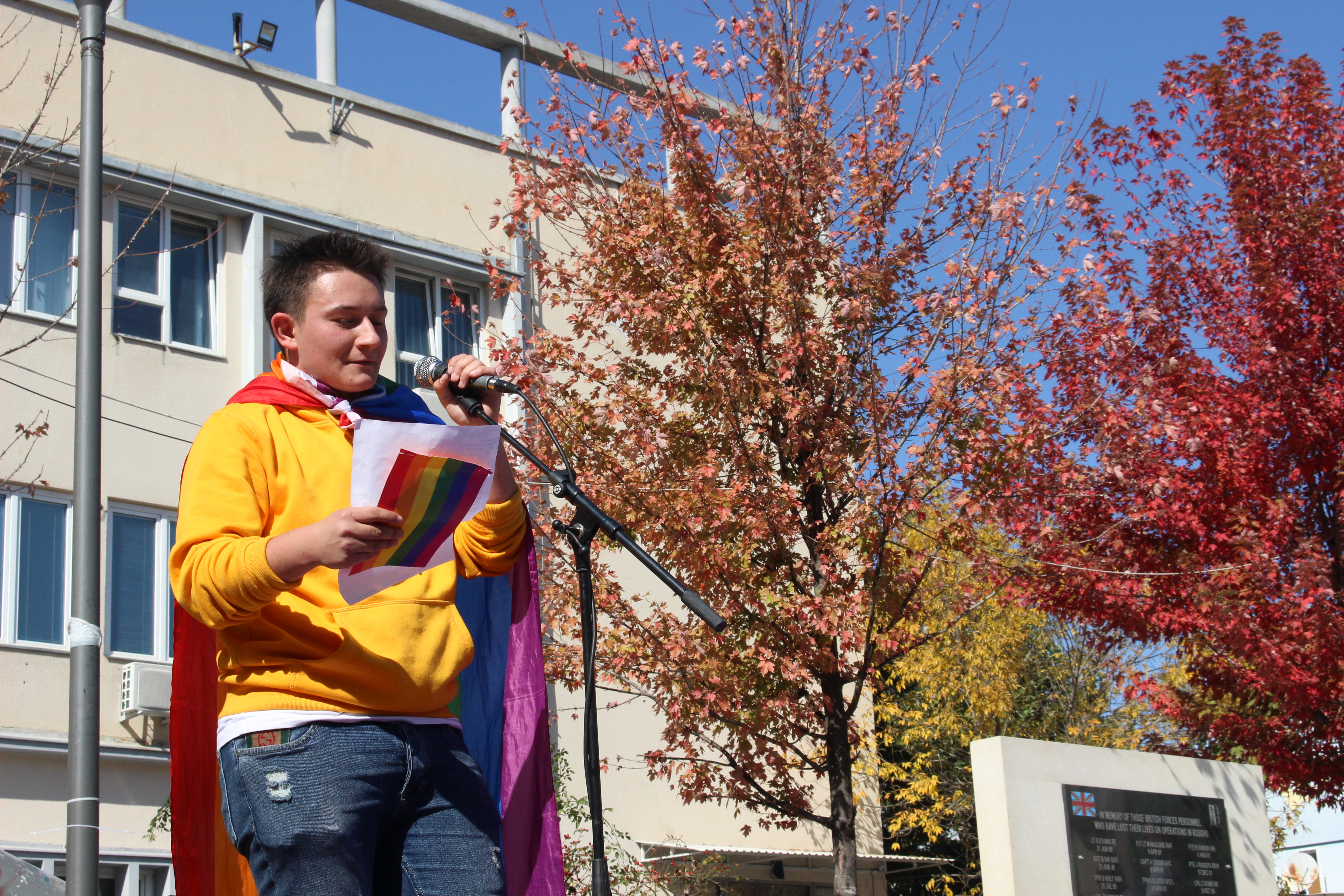 Lendi Mustafa, transgender activist from Kosovo during his speech at Kosovo Pride 2018.